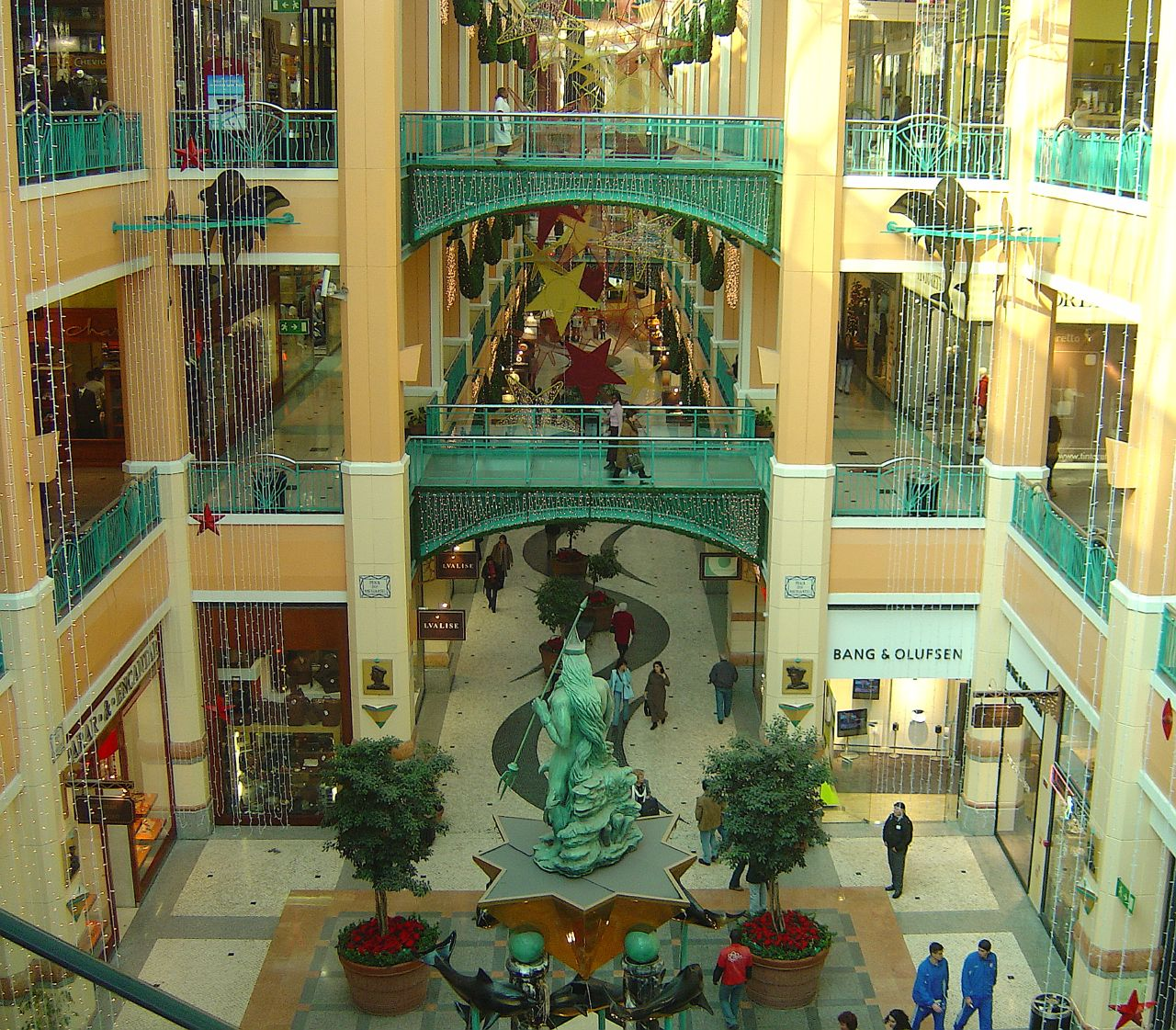 Inside hall of the Colombo Shopping Mall (Lisbon).